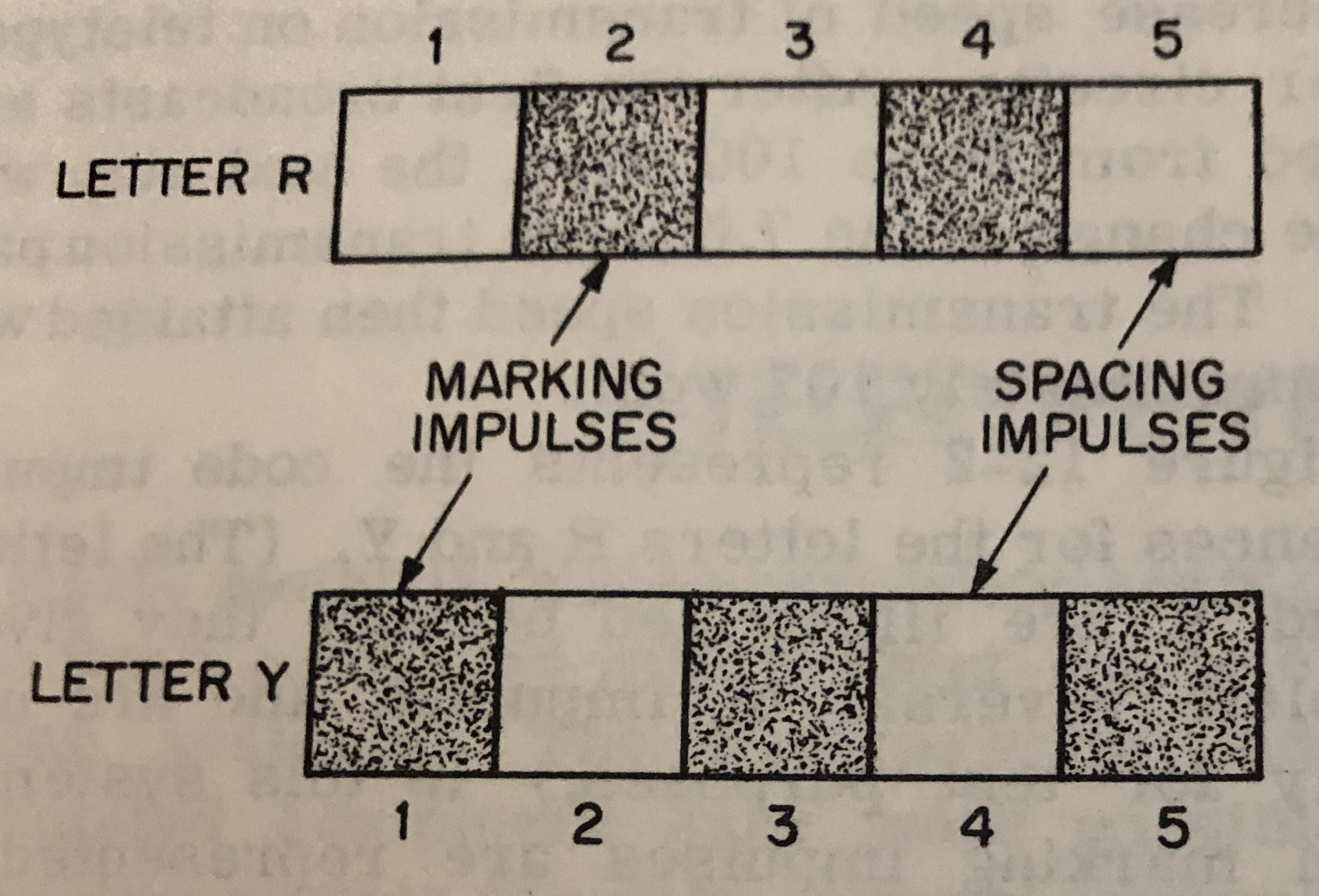 Illustration showing the alternating pattern of marks and spaces in the 5-level teleprinter test pattern RYRYRY...